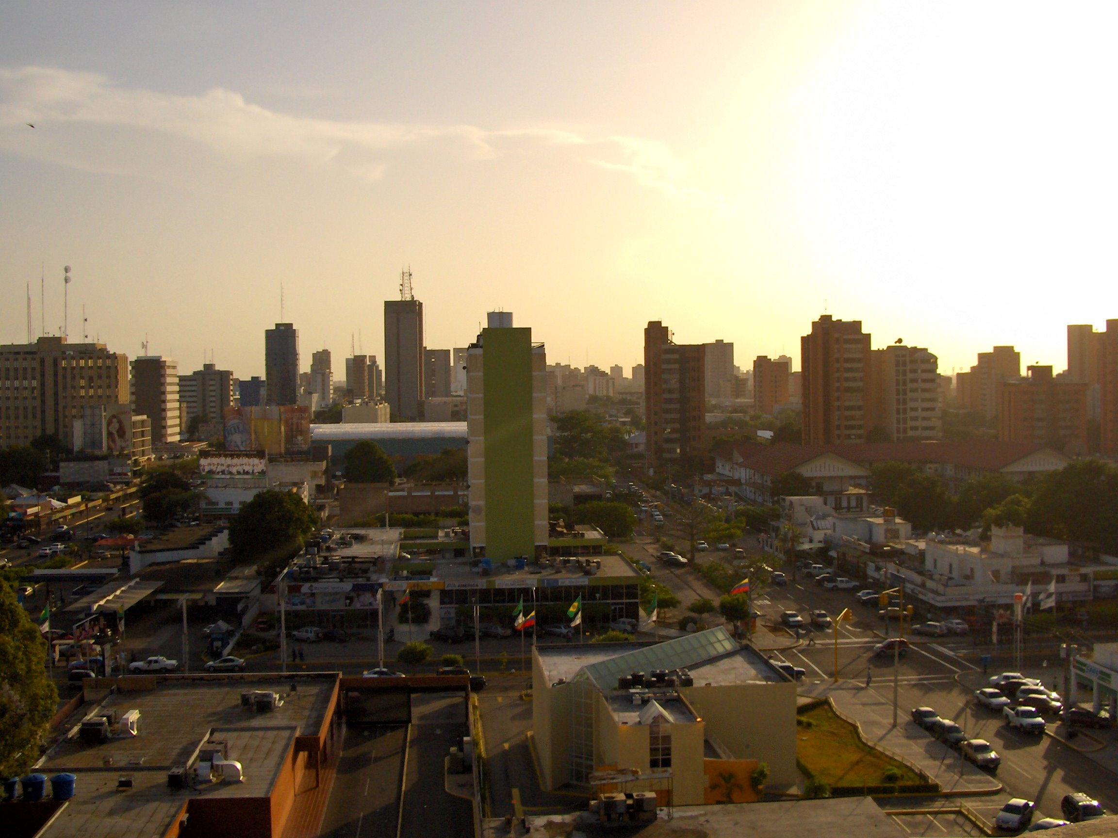 picture taken on July 10, At the Amado Clinic's rooftop in Maracaibo, the view shows bella vista area and part of the city skyline.